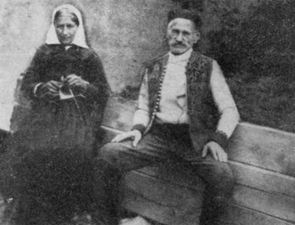 A picture of Gavrilo Princip's parents.